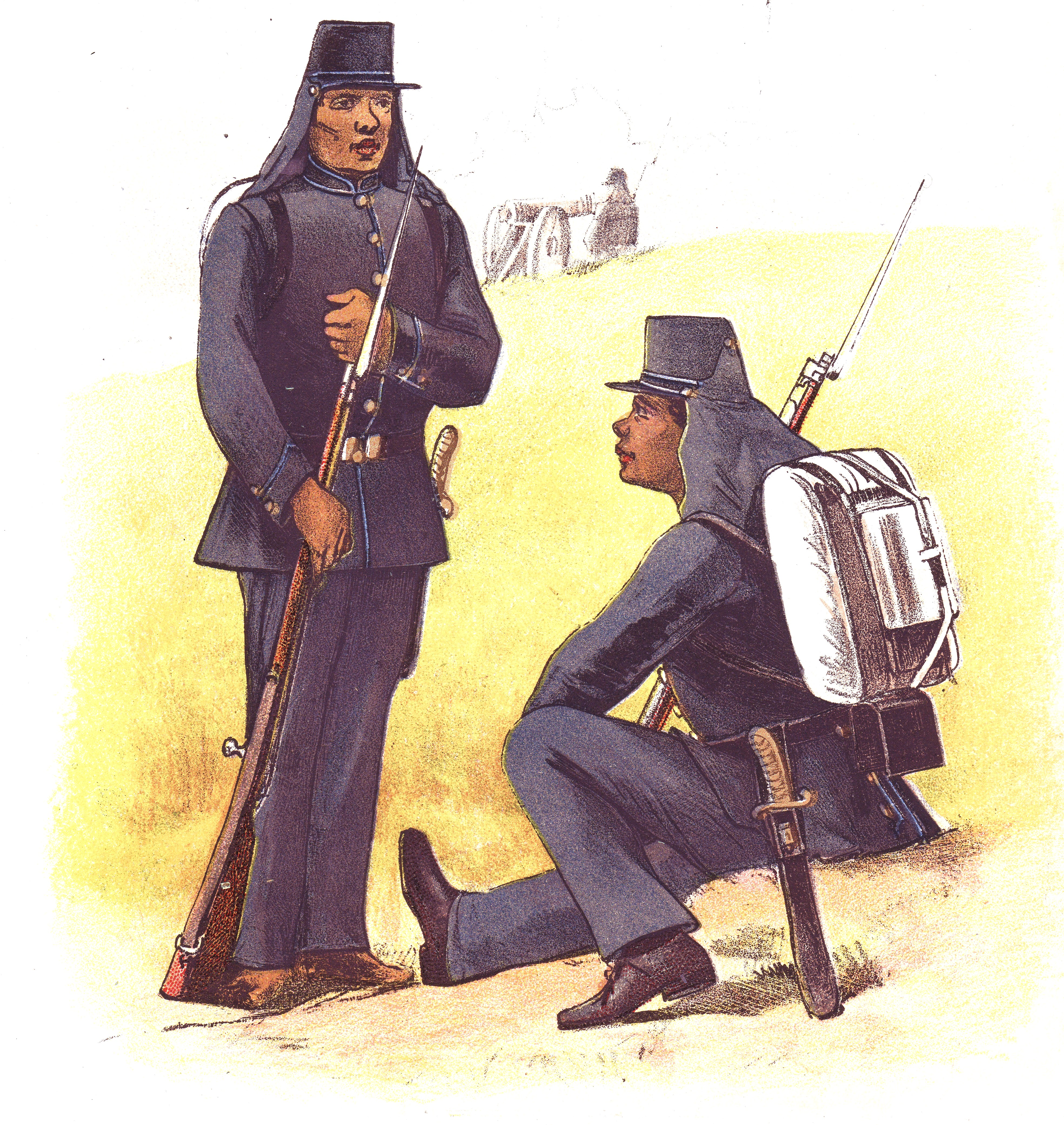 Inlandse en Afrikaanse troepen